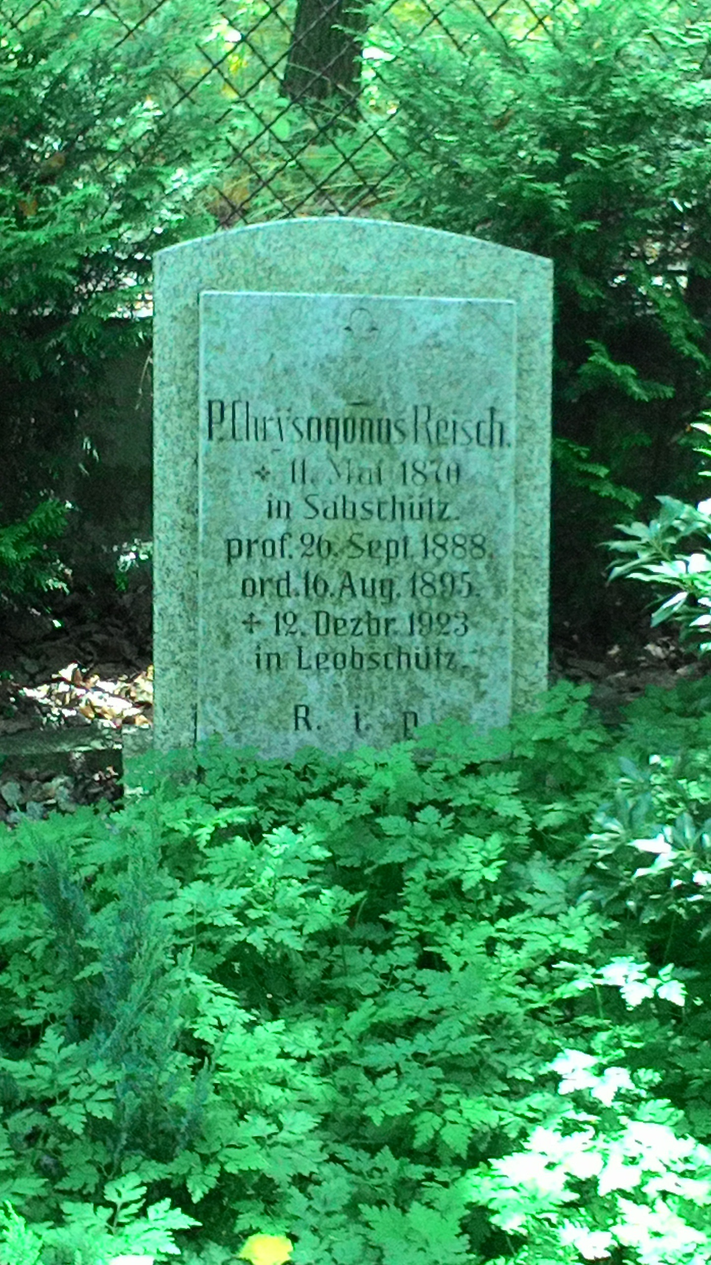 Chryzogon Reisch grave, Prudnik